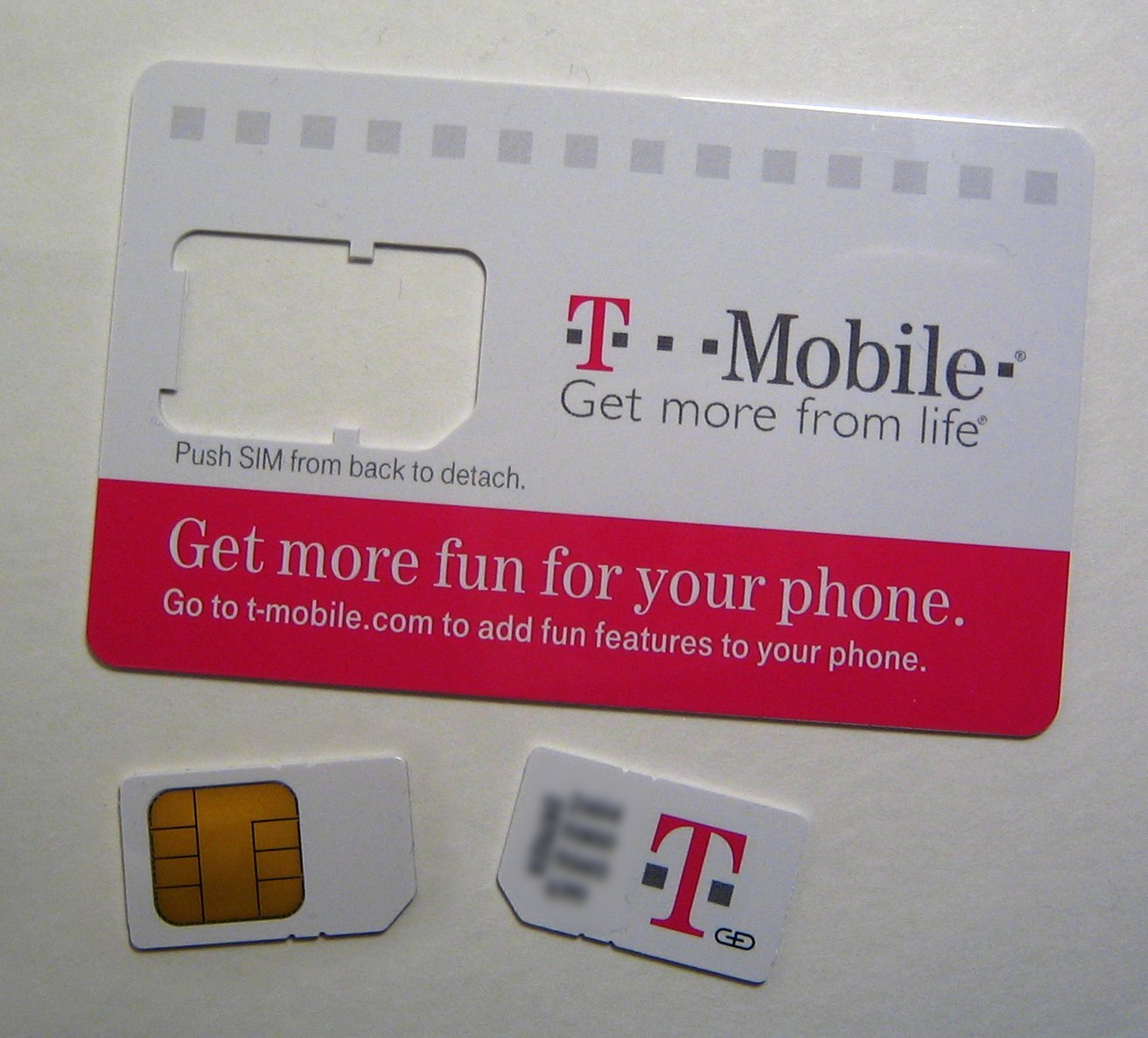 A SIM card from T-Mobile for T-Mobile To Go pay as you go service. Photoshopped to show front and back at the same time, and hopefully to mask the user's SIM number (though I'm not sure if it matters).